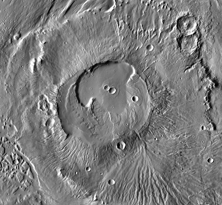 Apollinaris Patera on Mars. A daytime infrared image mosaic from the Thermal Emission Imaging System (THEMIS) instrument of the 2001 Mars Odyssey spacecraft. Width of the image is 200 km. Map of the region, page in Gazetteer of Planetary Nomenclature